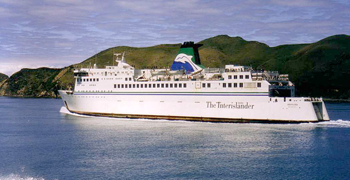 The Cook Strait ferry Arahura plying the waters of the Marlborough Sounds.